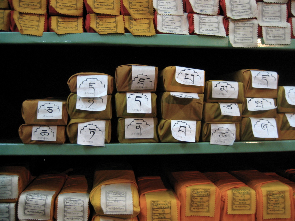 Pejas, scriptures of Tibetan Buddhism, at a library in Dharamsala.